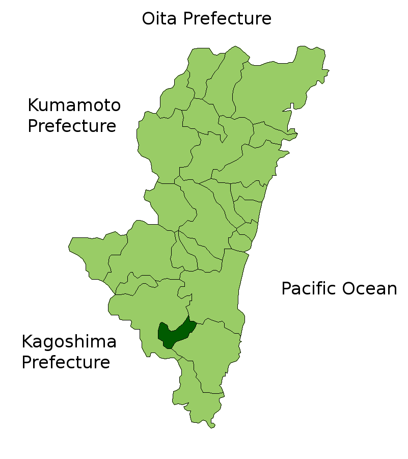 Location Map of Mimata in Miyazaki Prefecture, Japan